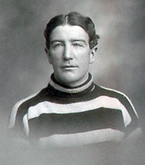 Photograph of photograph from 1905 Ottawa Hockey Club team picture cabinet set.